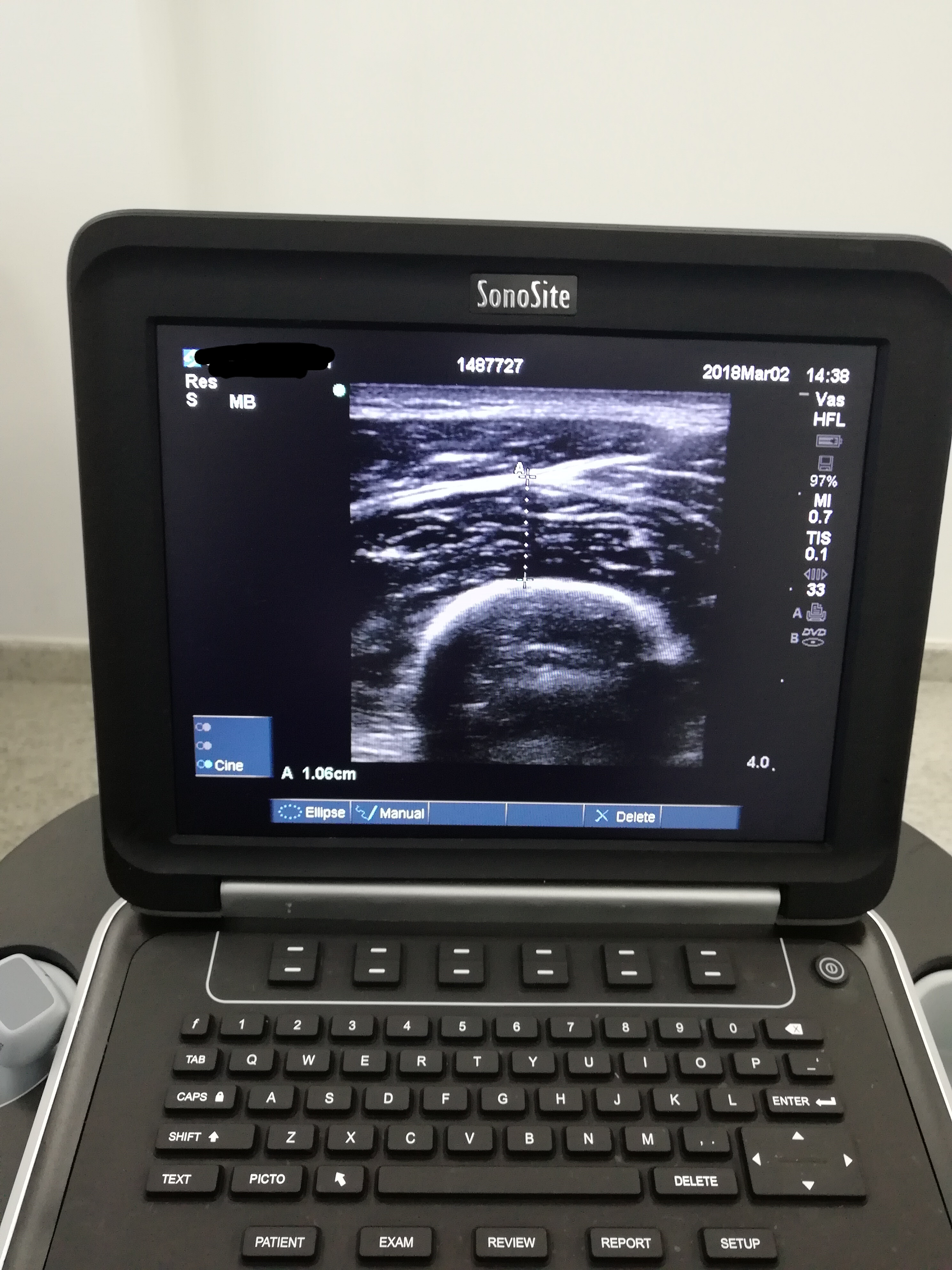 Measuring Rectus femoris muscle thickness for clinical nutrition assessment in a training course.